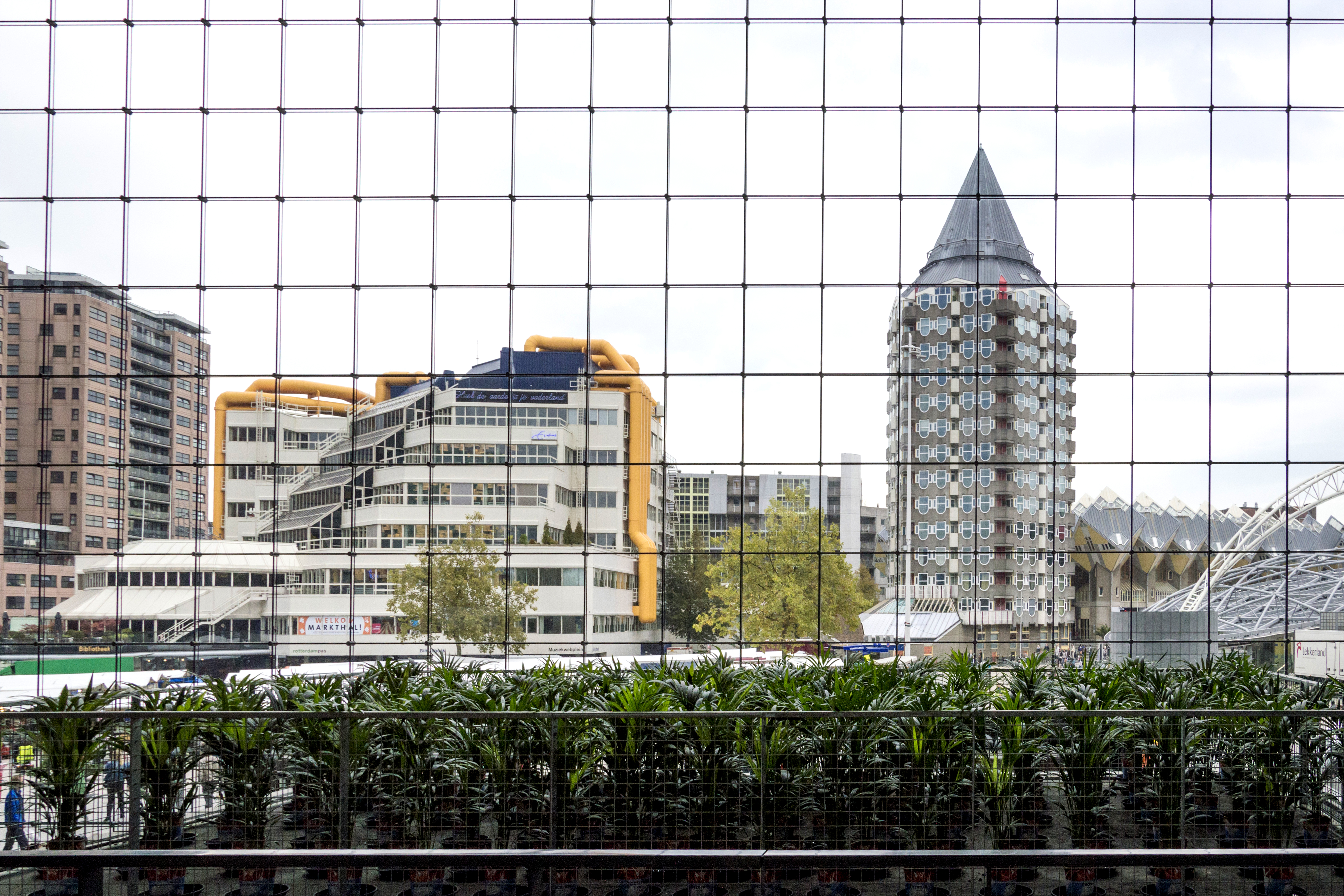 A view at the library from Markthal Rotterdam